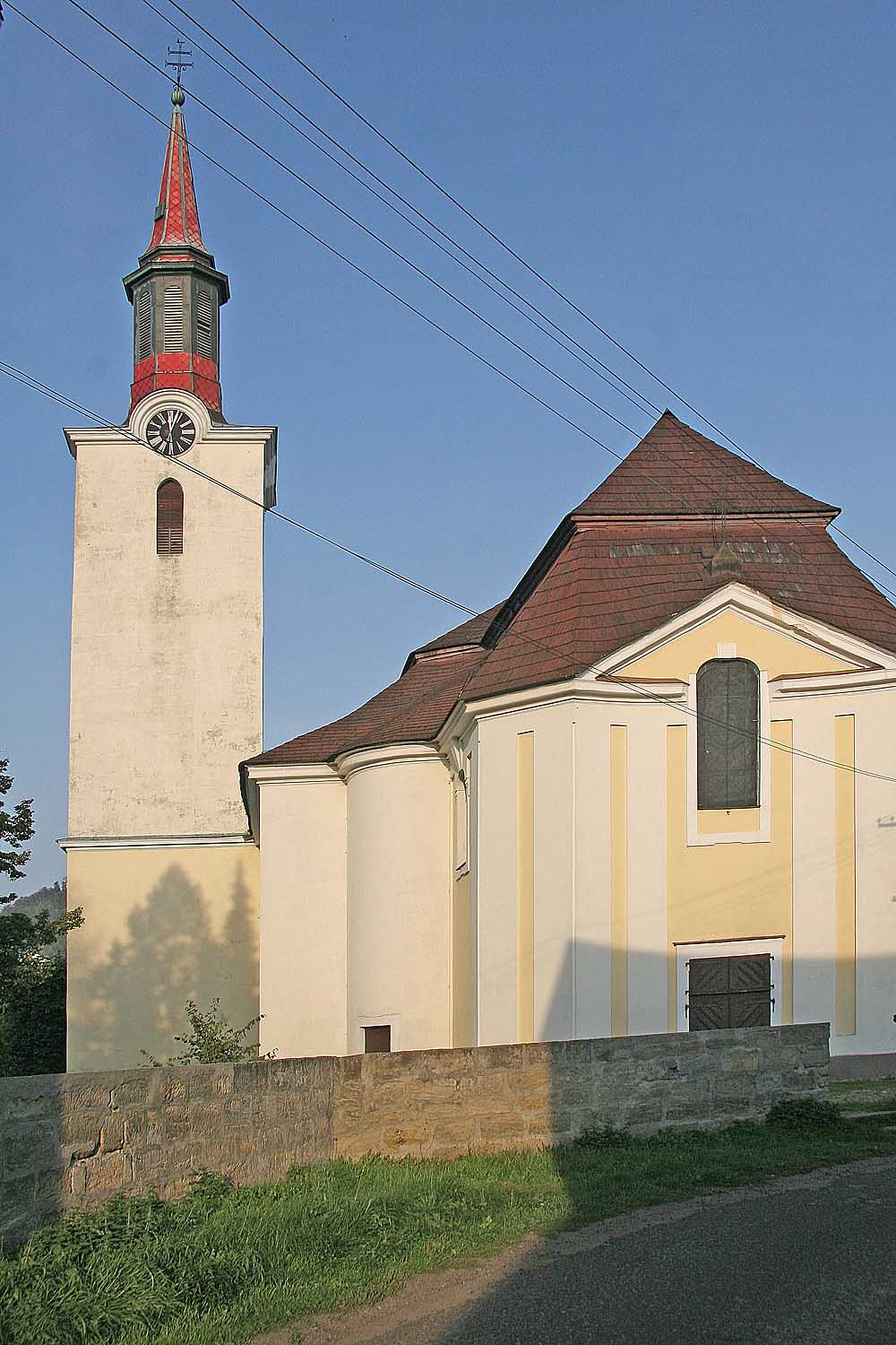 St Elisabeth church in Cvikov, Česká Lípa District, Czech Republic autor:Prazak date:20. 9. 2006